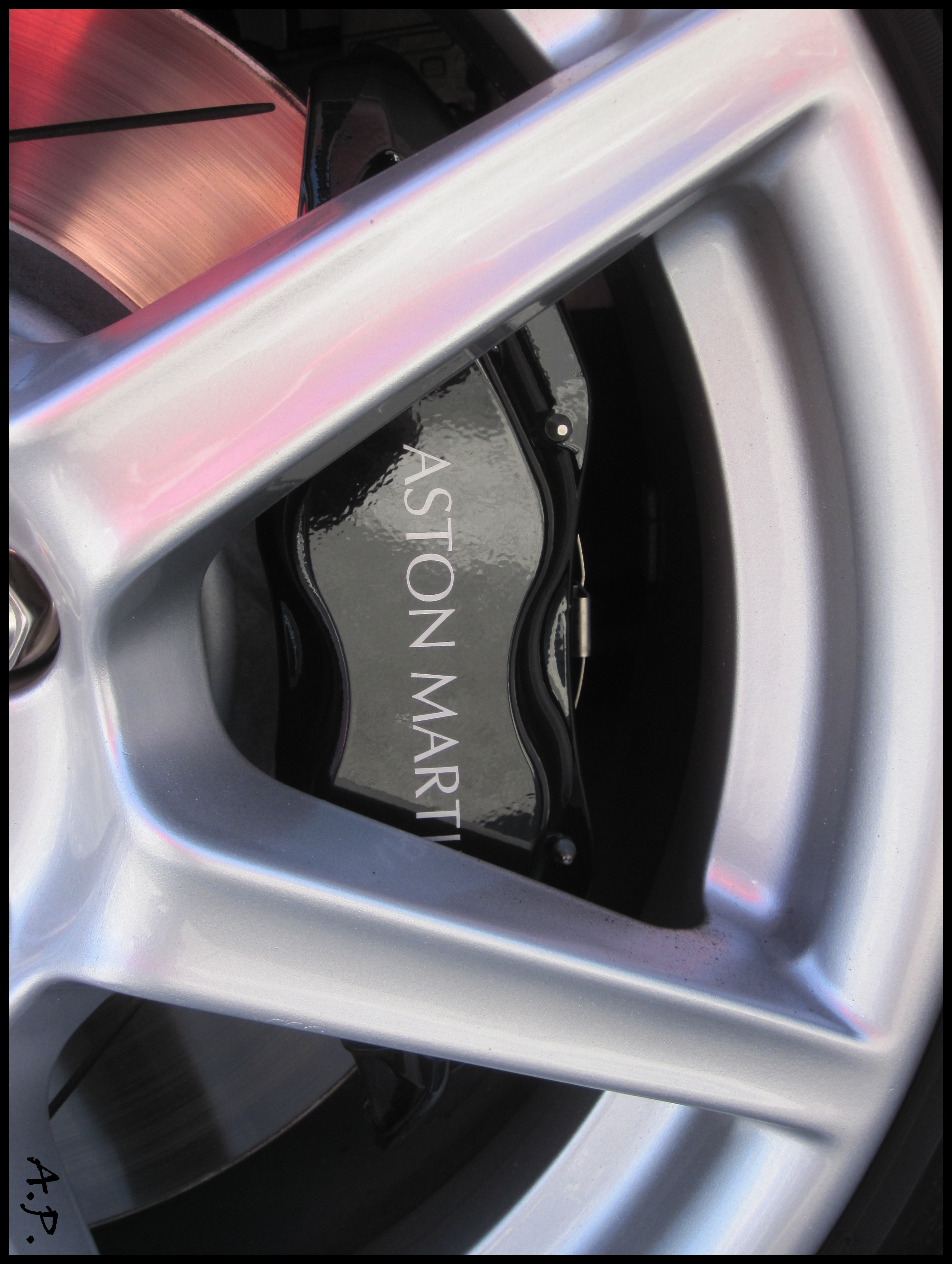 Aston Martin